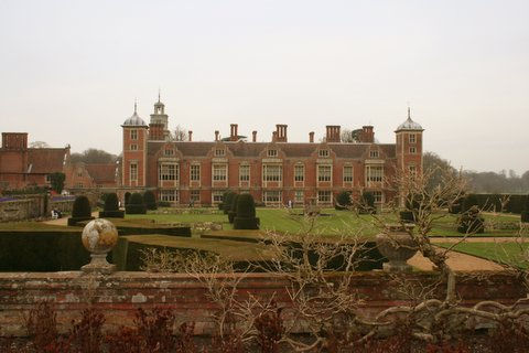 Picture of Blickling Hall taken by myself on 15th April 2006